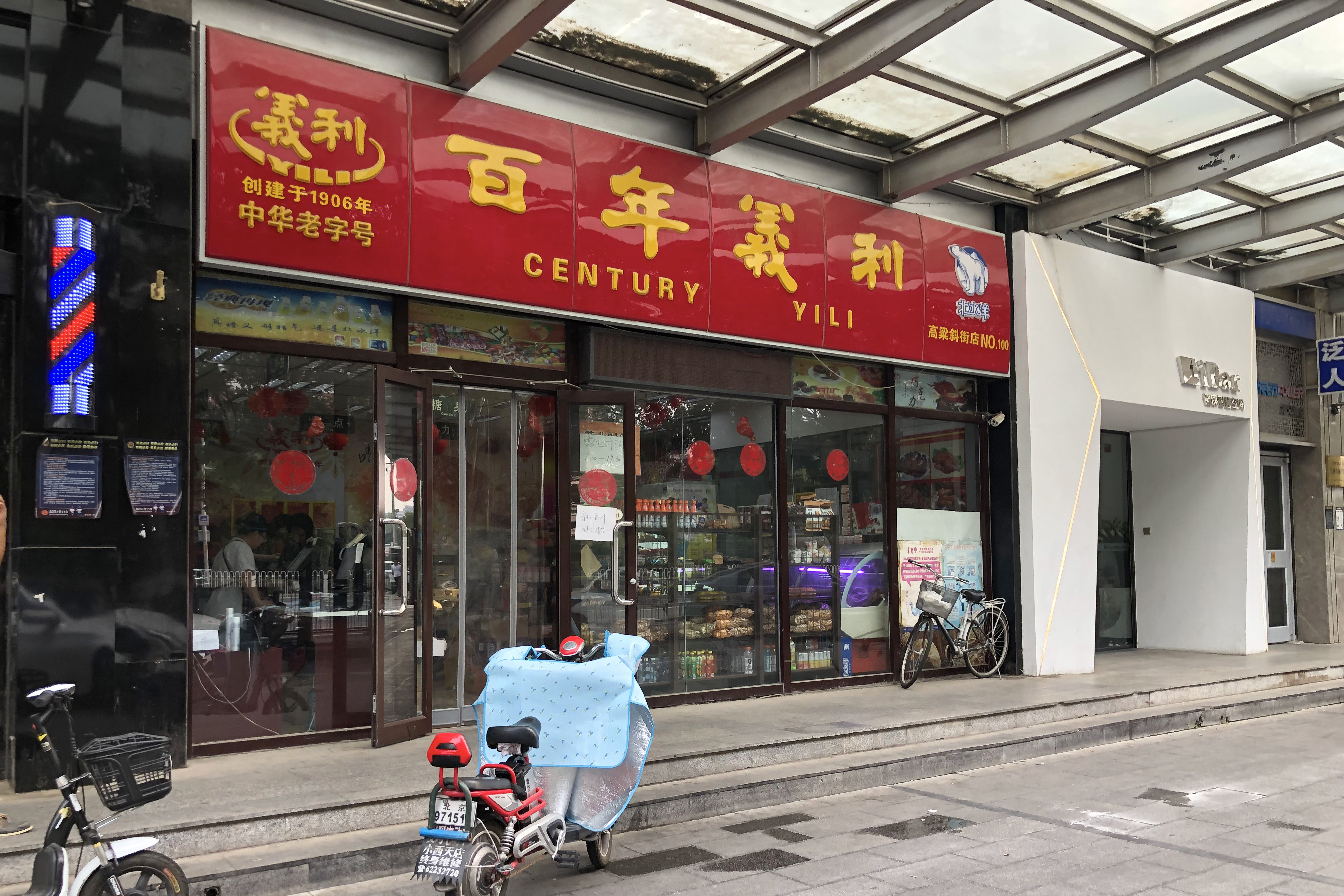 Yili Bread, Arctic Soda and miscellaneous.